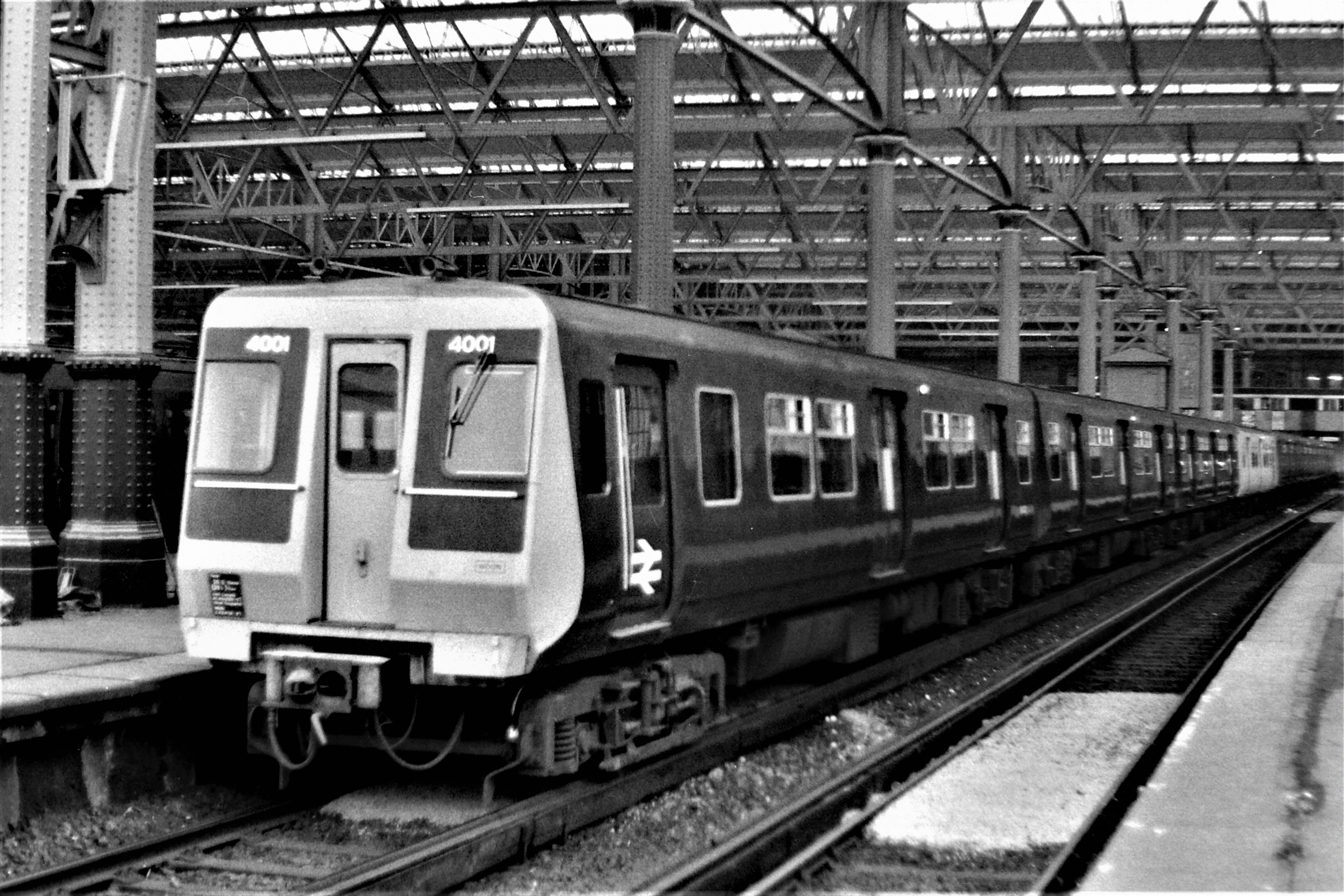 BR prototype "4-PEP" Class "445" Standard Mk.II 750 V dc 3rd rail inner suburban 4-car emu No.4001 in BR Rail Blue livery with all yellow front end (with No.4002) at Waterloo on a Hampton Court service, 07/75. Note driving car of "2-PEP" Class 446 in formation at the rear of the set. Scanned photograph taken with a Kowa SET.